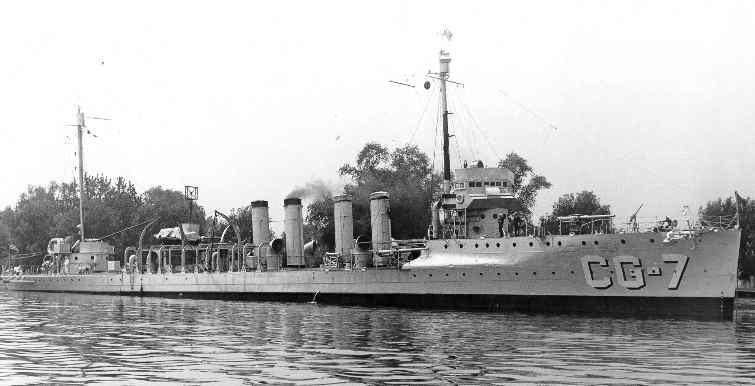 USCGC Porter (CG-7), ex USS Porter (DD-59), on Coast Guard service during the Prohibition Era.